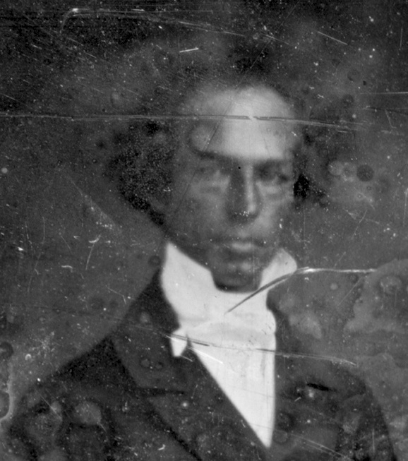 William Henry Fry, music editor of the New York Tribune, according to Library of Congress description - identification is possibly incorrect ("identifications of Ripley and Fry are based on their inclusion in Brady's list and resemblance to identified portraits of them as much older men" [1]).